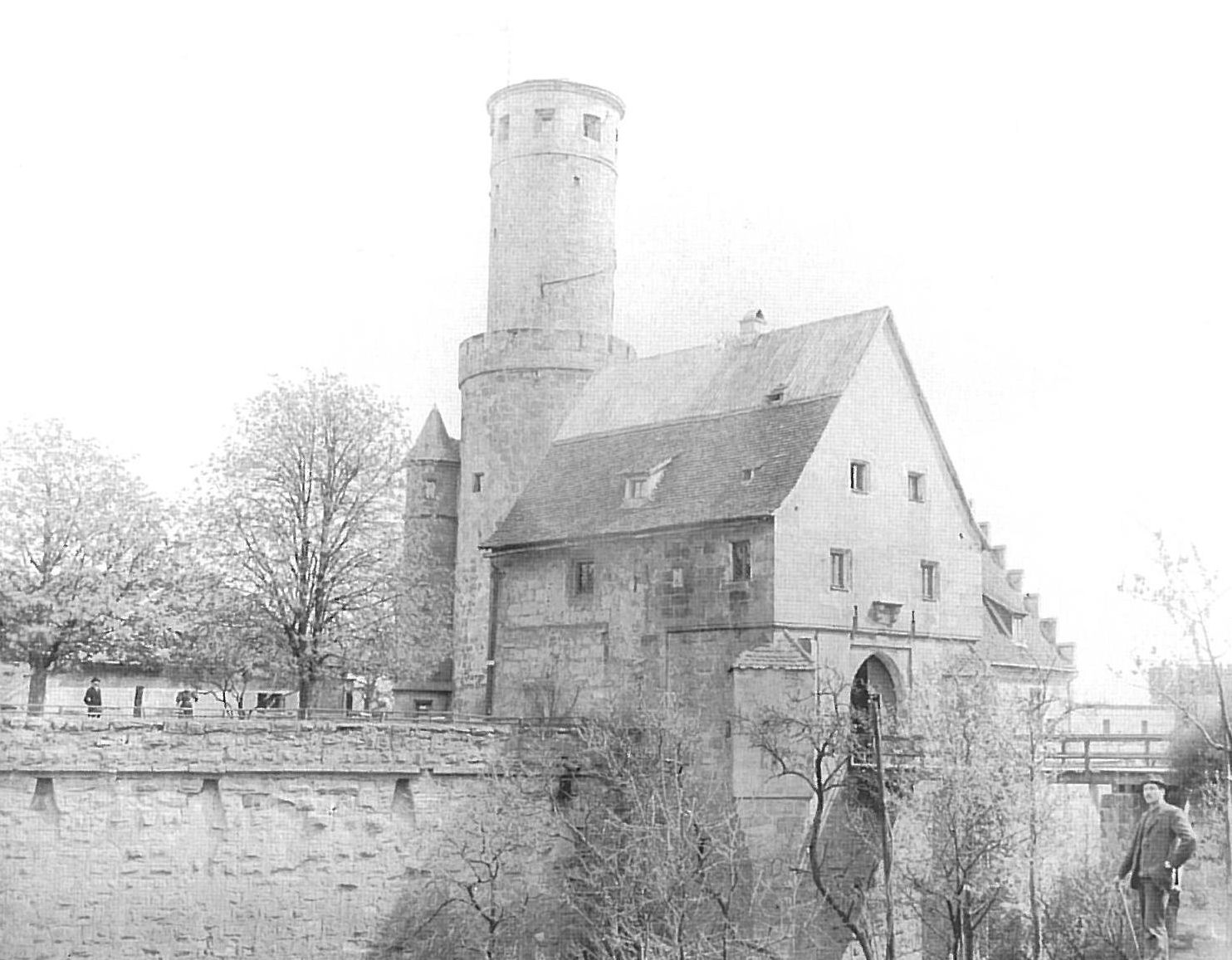 The Altenburg in Bamberg 1893